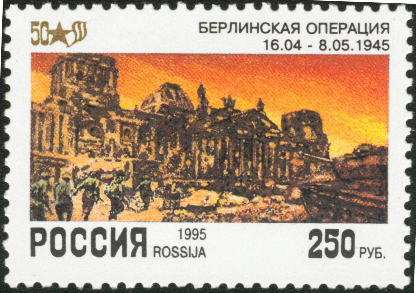 Stamp of Russia. 50th anniversary of the Victory in the Great Patriotic War. The Berlin Operacy (1945). 1995, 250 rubles, CPA #20?